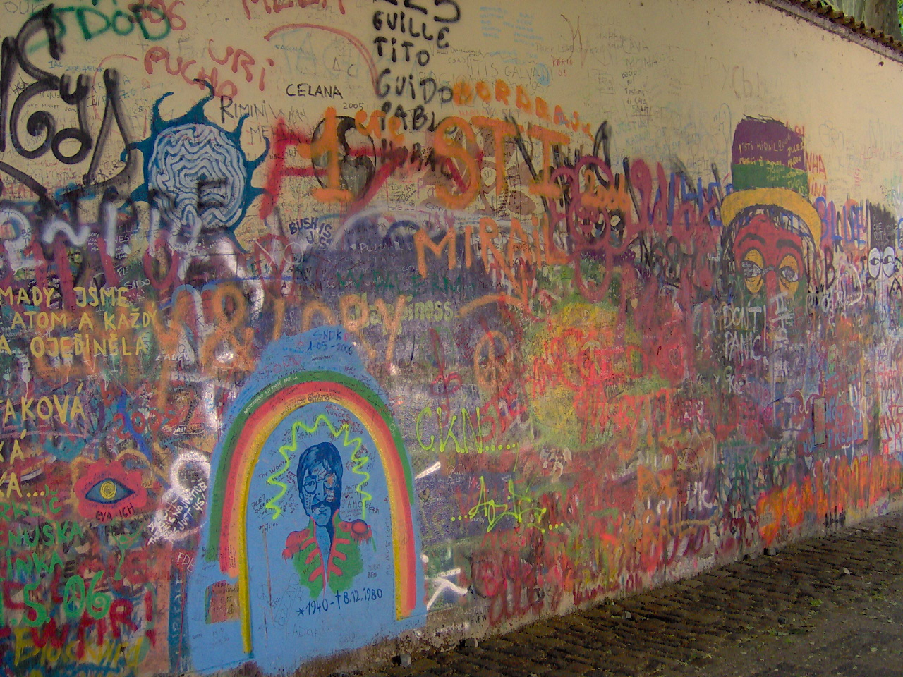 John Lennon's Wall in Lesser Town, Prague; place of meetings of young pacifists in 1980's Where to find: Velkopřevorské náměstí (sqare)